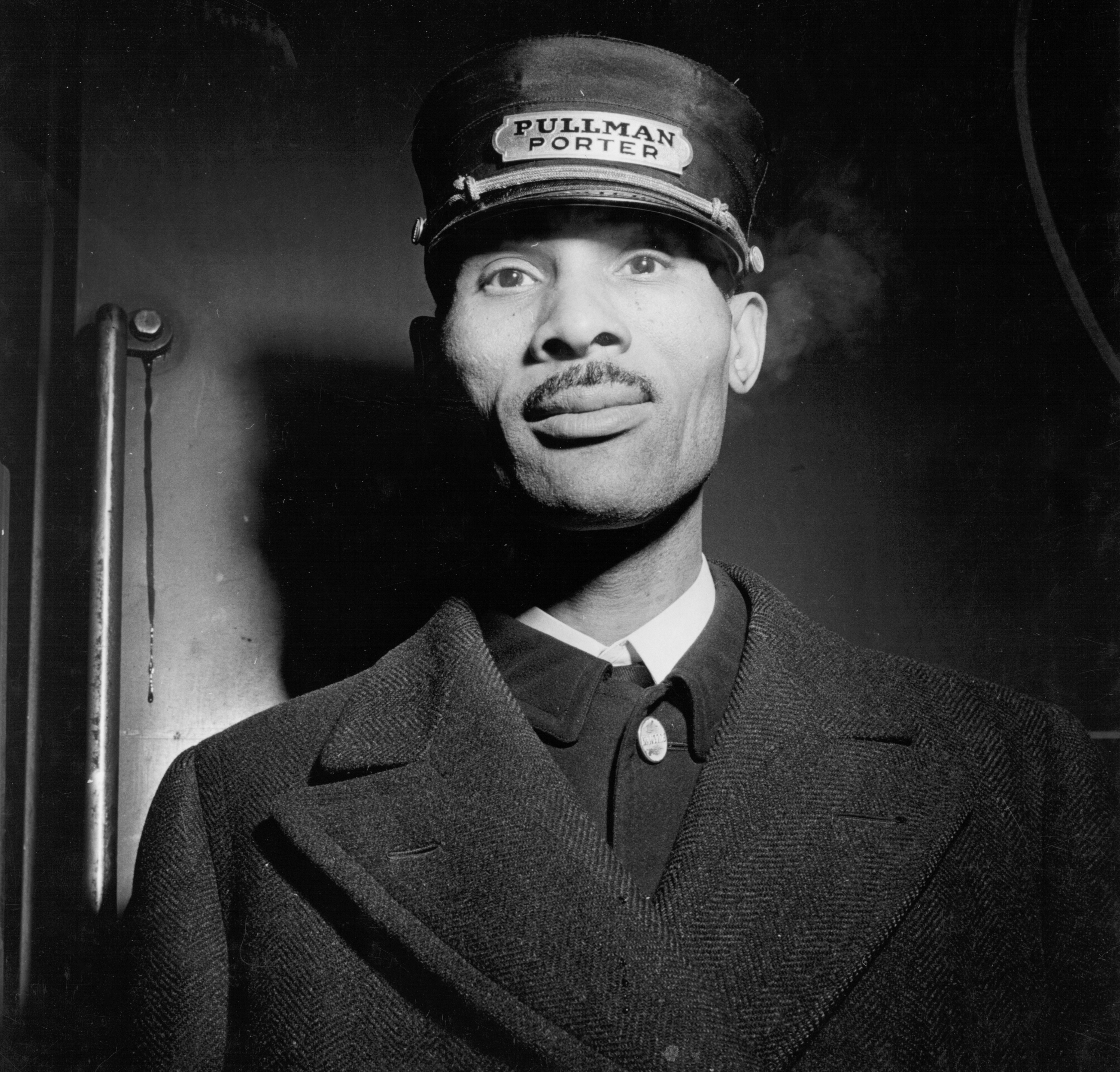 A sleeping car porter employeed by the Pullman Company at Union Station in Chicago, Illinois.